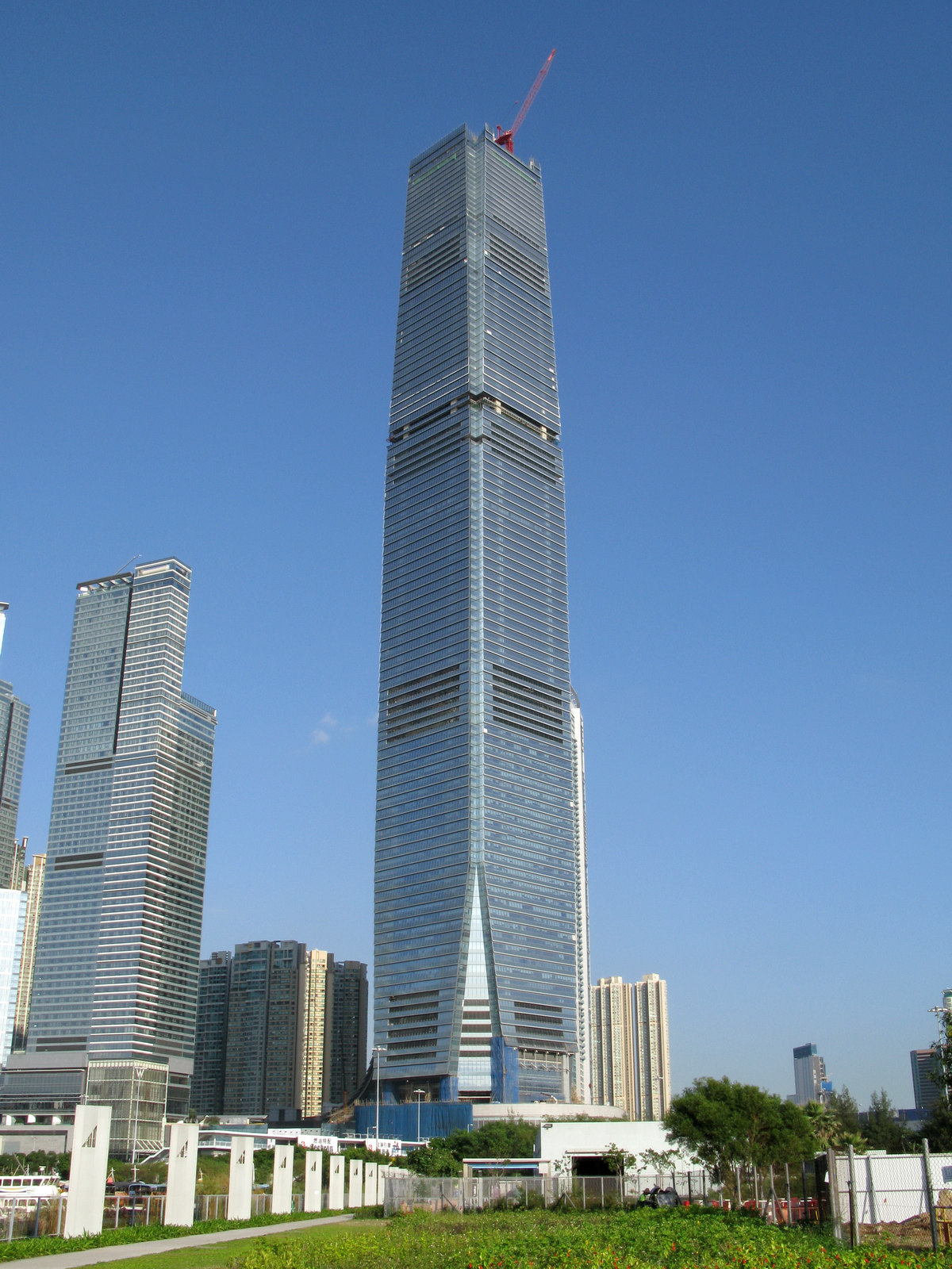 International Commerce Centre during construction